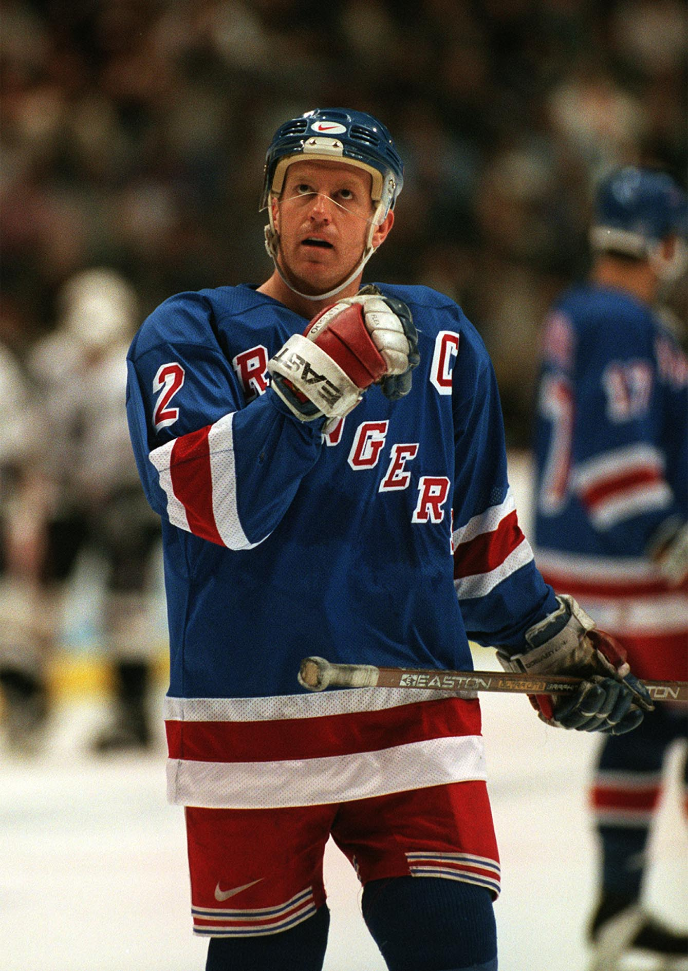 Brian Leetch, captain of the NHL's New York Rangers, during a game in Vancouver, BC.